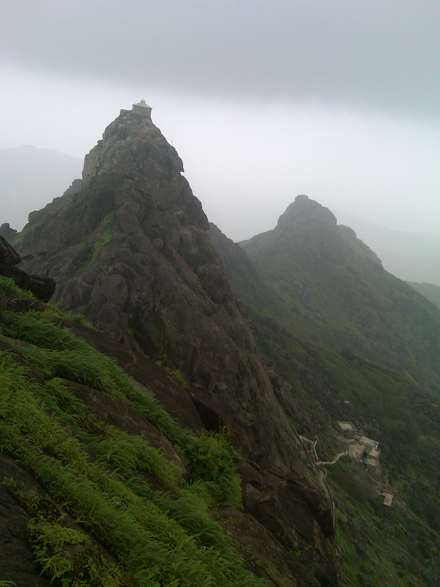 Dattatrey Mandir, Girnar, Junagarh, Gujrat